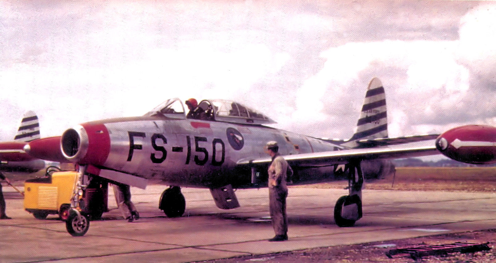 36th Fighter-Bomber Wing F-84E 49-2150 Furstenfeldbruck AB 1950